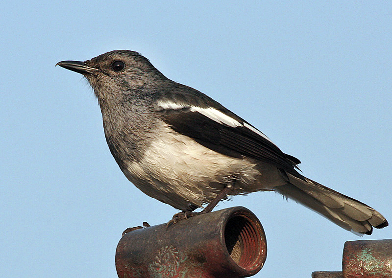 Oriental Magpie Robin (Copsychus saularis) in Kolkata, West Bengal, India.